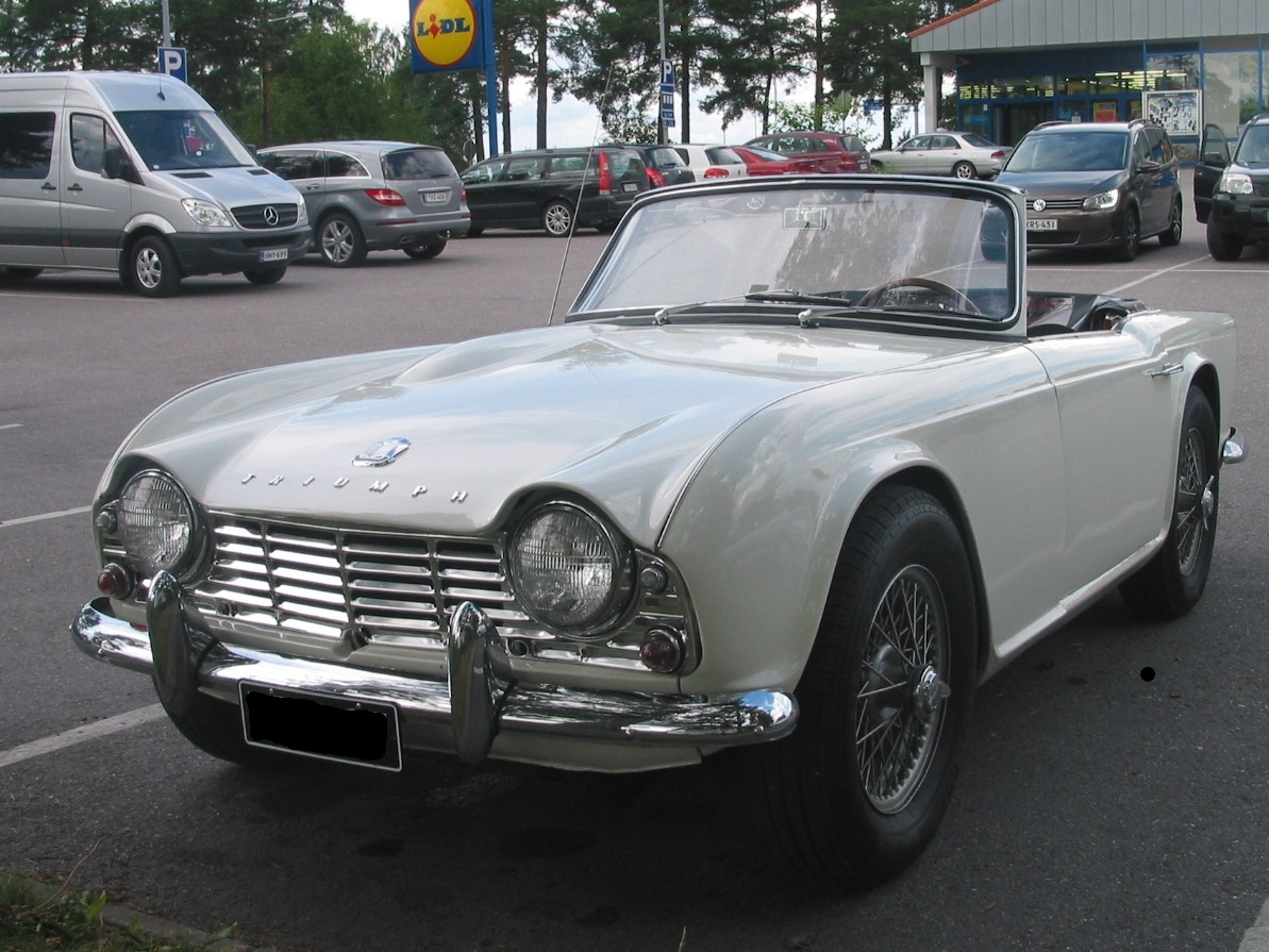 Triumph TR4 1962 front, in Lohja, Finland